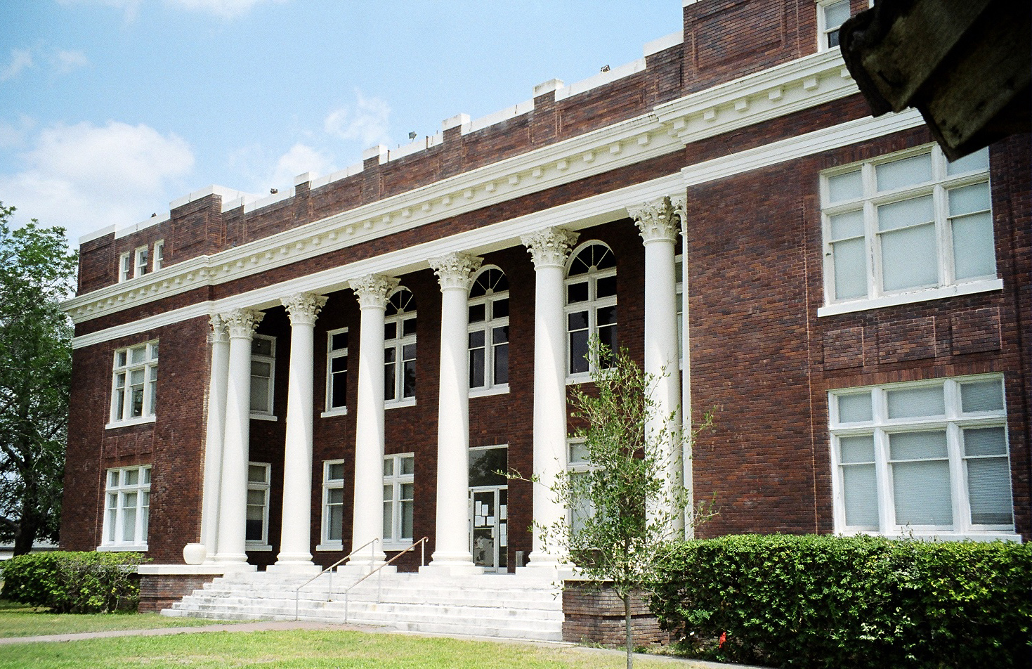 The Live Oak County Courthouse located in George West, Texas, United States.